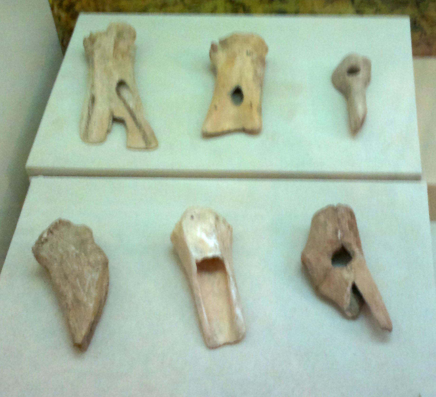 Bone and horn hoes. Gargalartepesi (Akhstafa), Shomutepe (Akhstafa), Kultepe I (Nakhchivan). 6th-4th millenium BC. Museum of History of Azerbaijan